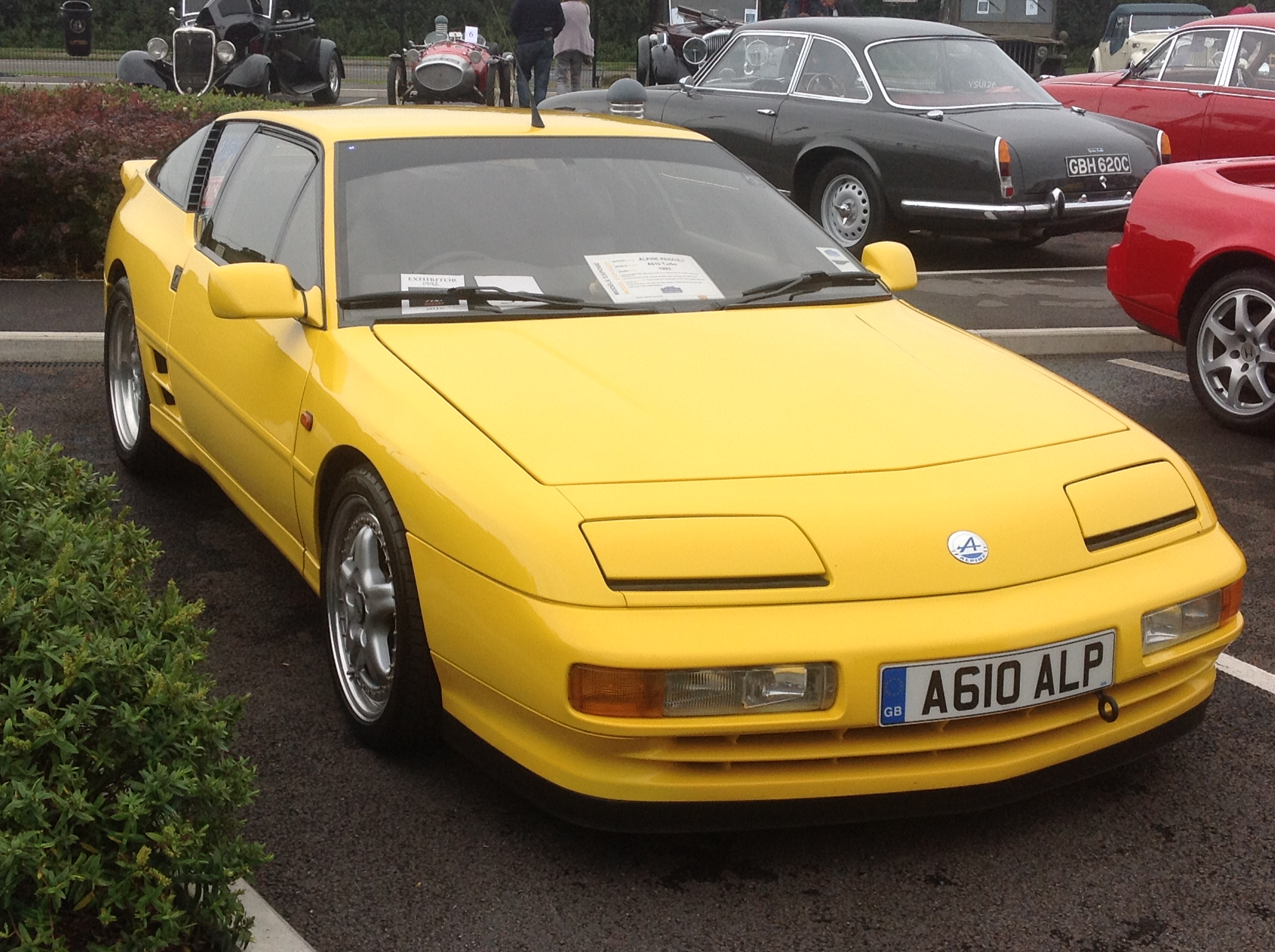 Rare Breeds, Haynes Motor Museum, Sparkford, Somerset